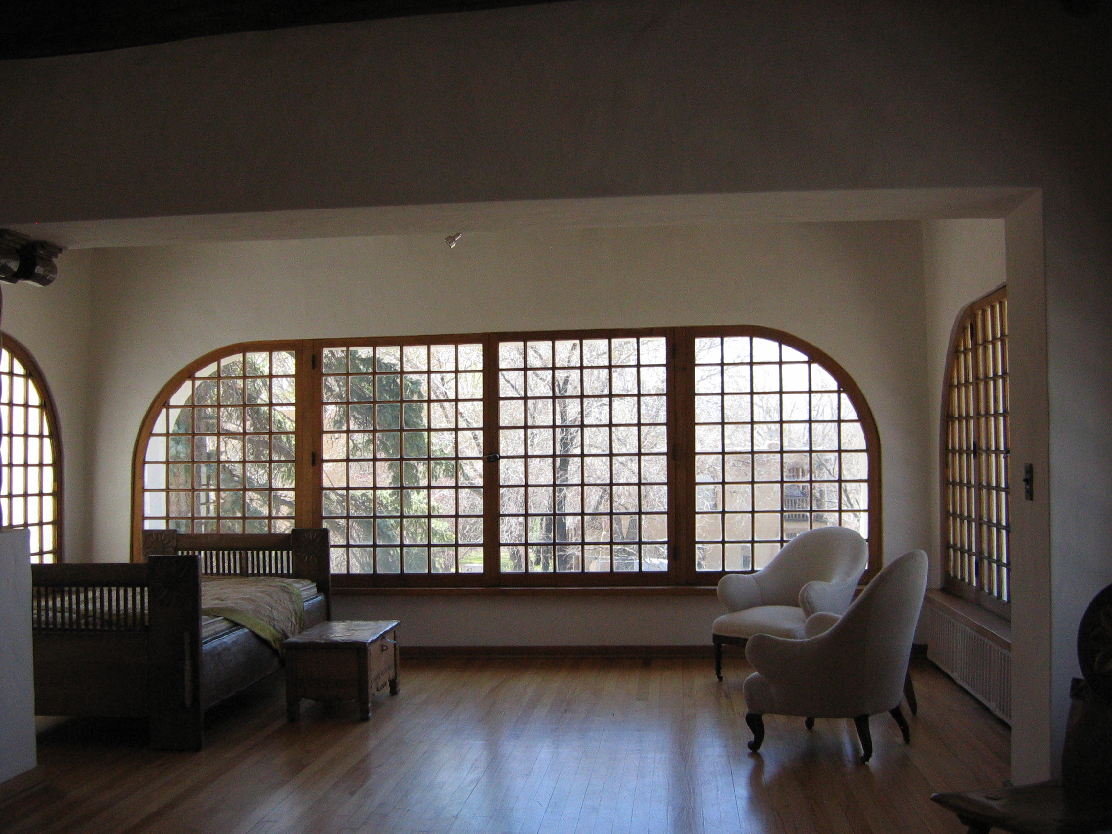 Nicolai Fechin House, Daughters Playroom, windows faced East, South, and West. In Taos, New Mexico.